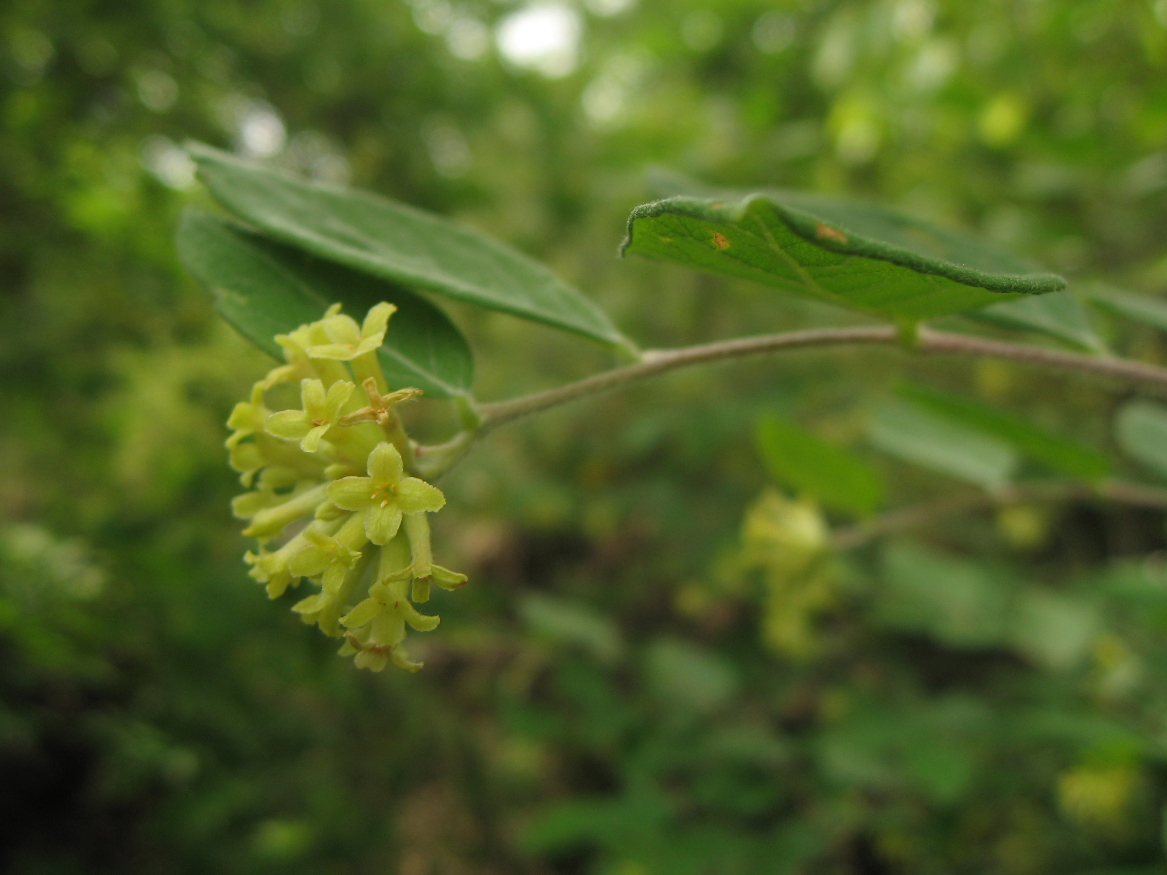 Diplomorpha sikokiana (flower) Date taken(YYYY-MM-DD): 2010-06-06 Mt. Asama area, Ise-Shima National Park, Ise, Mie, Japan.